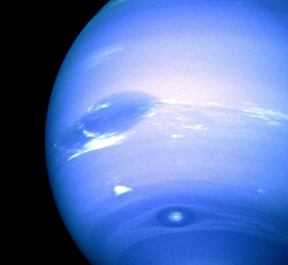 This photograph of Neptune was reconstructed from two images taken by Voyager 2's narrow-angle camera, through the green and clear filters. The image shows three of the features that Voyager 2 has been photographing during recent weeks. At the north (top) is the Great Dark Spot, accompanied by bright, white clouds that undergo rapid changes in appearance. To the south of the Great Dark Spot is the bright feature that Voyager scientists have nicknamed "Scooter." Still farther south is the feature called "Dark Spot 2," which has a bright core. Each feature moves eastward at a different velocity, so it is only occasionally that they appear close to each other, such as at the time this picture was taken.